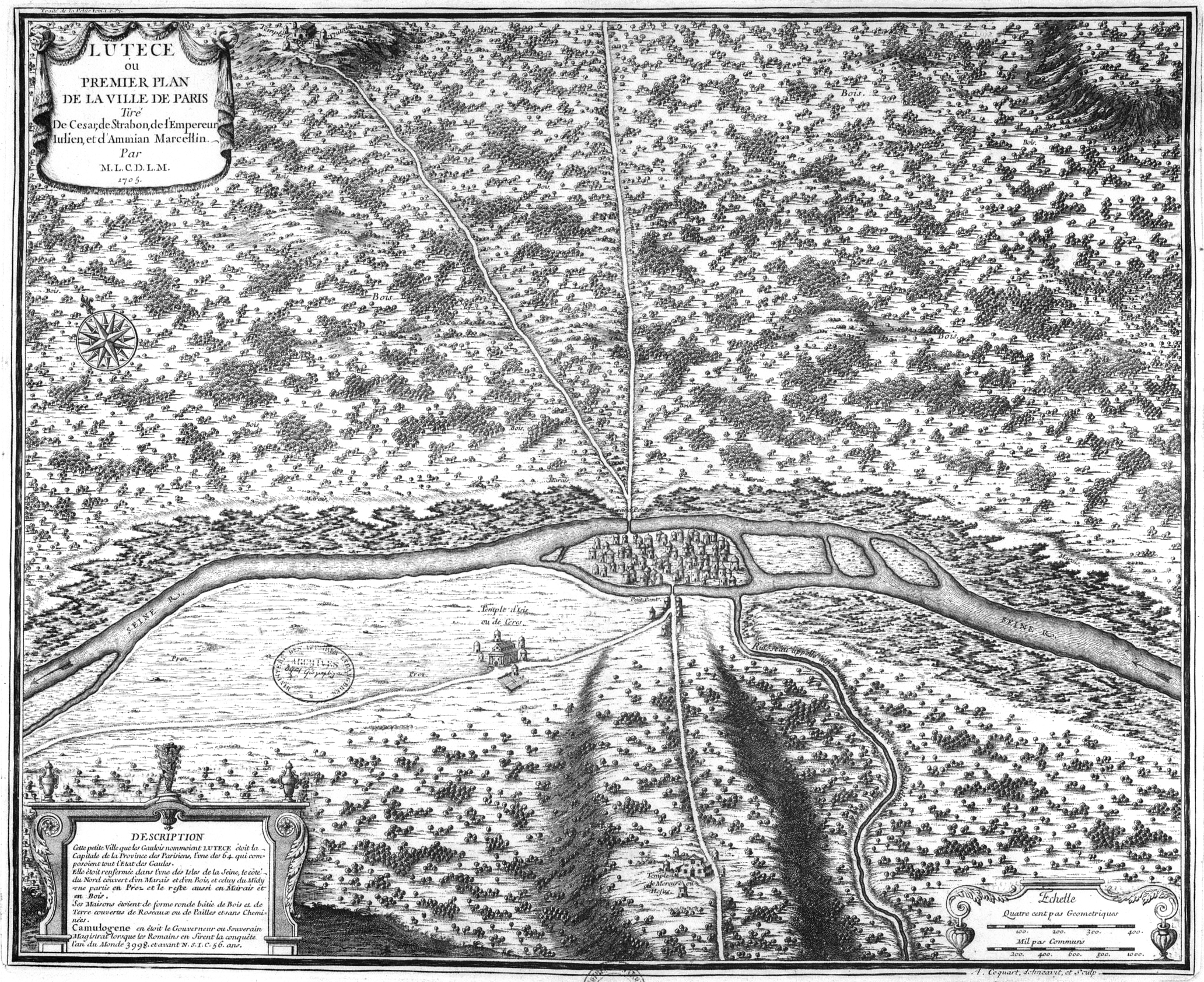 Lutetia or the first map of Paris, one of eight chronological maps of Paris from Traité de la police